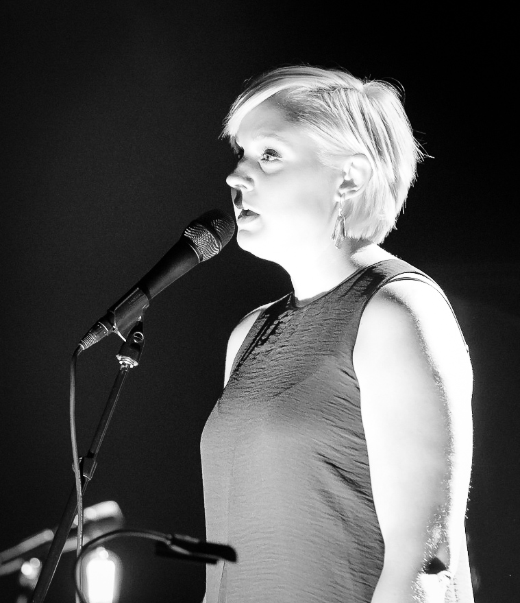 Frida Ånnevik at Åpningskonsert in Oslo Opera House. The concert was part of Oslo Jazzfestival and took place on 12. August 2018 in Oslo. Lineup: Rohey Taalah (vocal) Susanna Wallumrød (vocal) Frida Ånnevik (vocal) Jenny Hval (vocal) Sondre Lerche (vocal) Anja Lauvdal (keyboard) Hanna Paulsberg (saxophone and percussion) Heida Mobeck (tuba) Torstein Lavik Larsen (trumpet) Christian Winther (guitar) Magnus Nergaard (double bass and bass guitar) Hans Hulbækmo (drums and percussion) Opening remarks: Trine Skei Grande (introduction) Jon Christensen (award recipient)